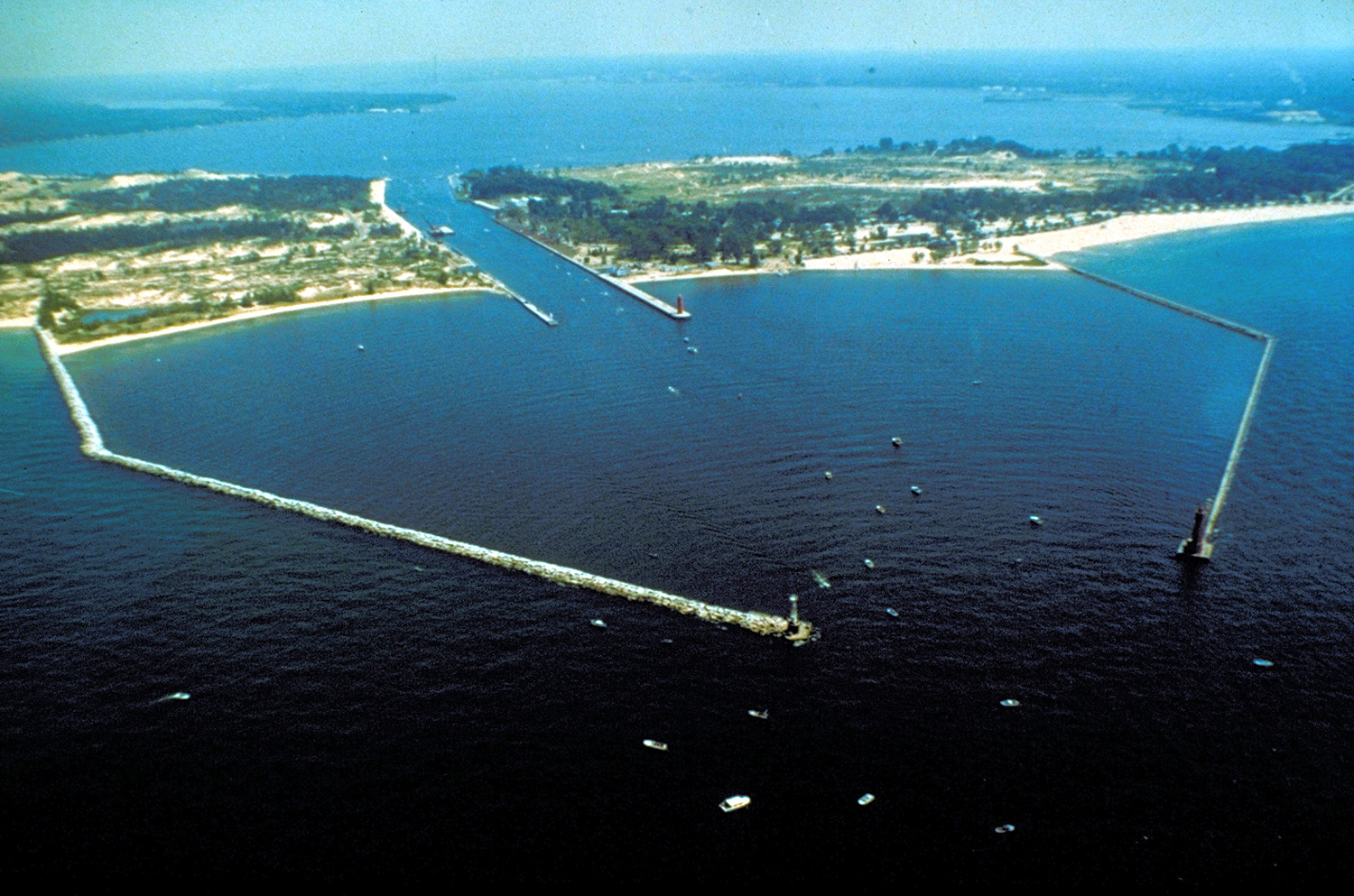 The breakwaters and harbor entrance on Lake Michigan at Muskegon, Muskegon County, Michigan, USA. The harbor entrance opens into Muskegon Lake, on which the city is situated.